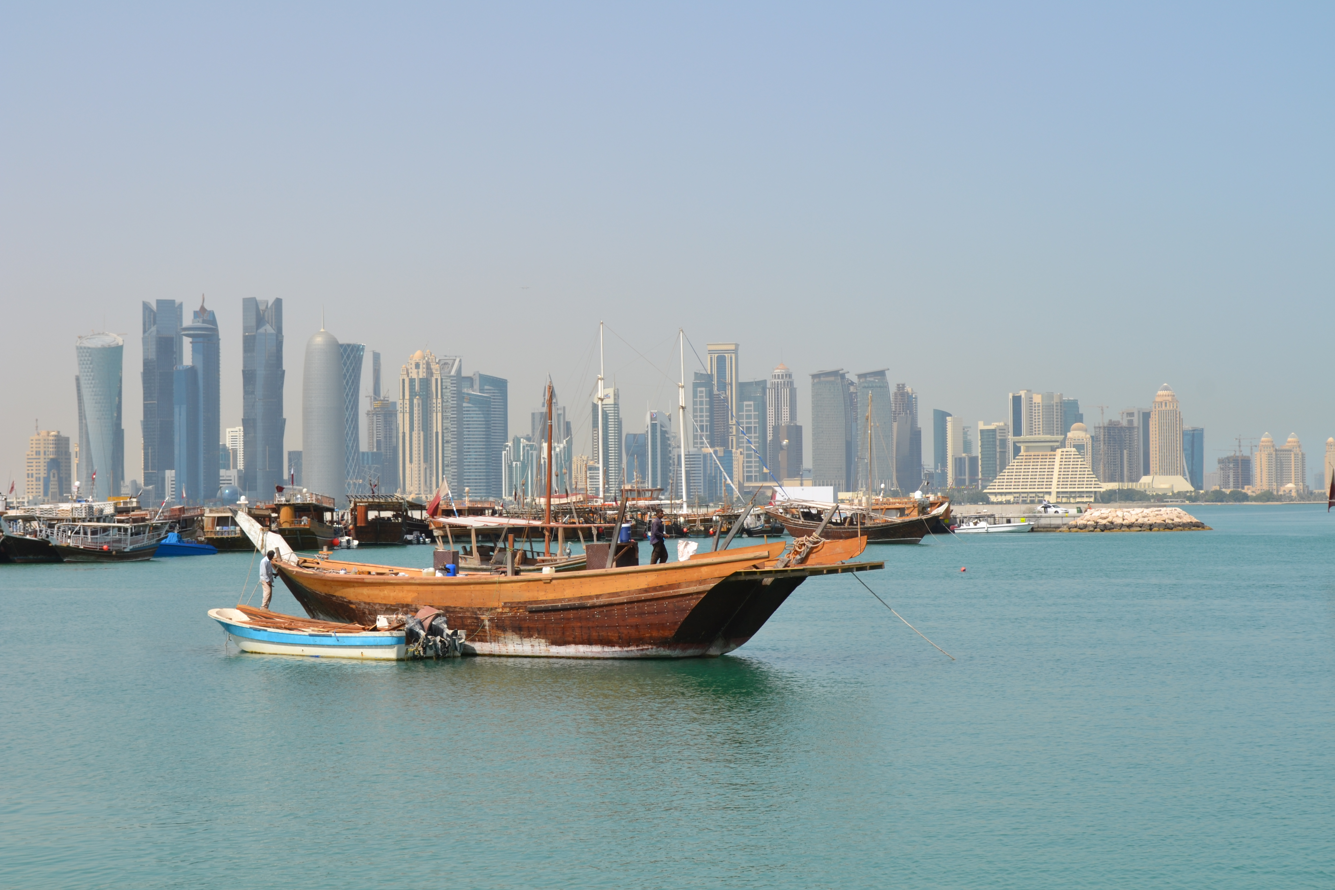 View on Doha skyline